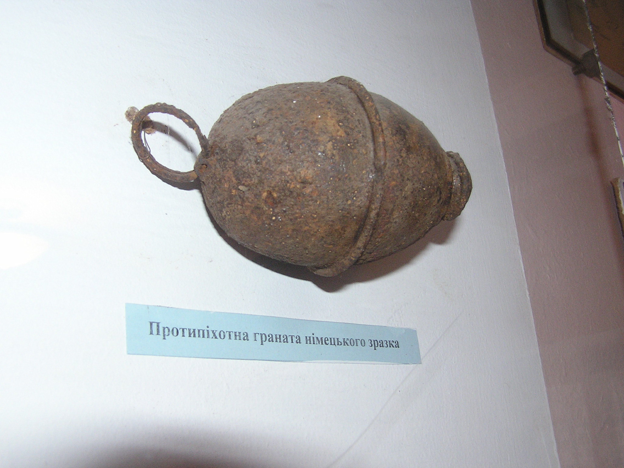 History museum of Truskavets History Museum of Truskavets Native nameМузей истории г. ТрускавецLocationTruskavetsCoordinates49° 16′ 39.5″ N, 23° 30′ 23.96″ E Established29 December 1982 Authority control : Q12130489 institution QS:P195,Q12130489